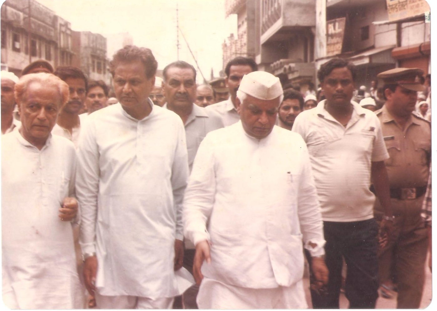 Indian politicians M Shakeel and ND Tiwari